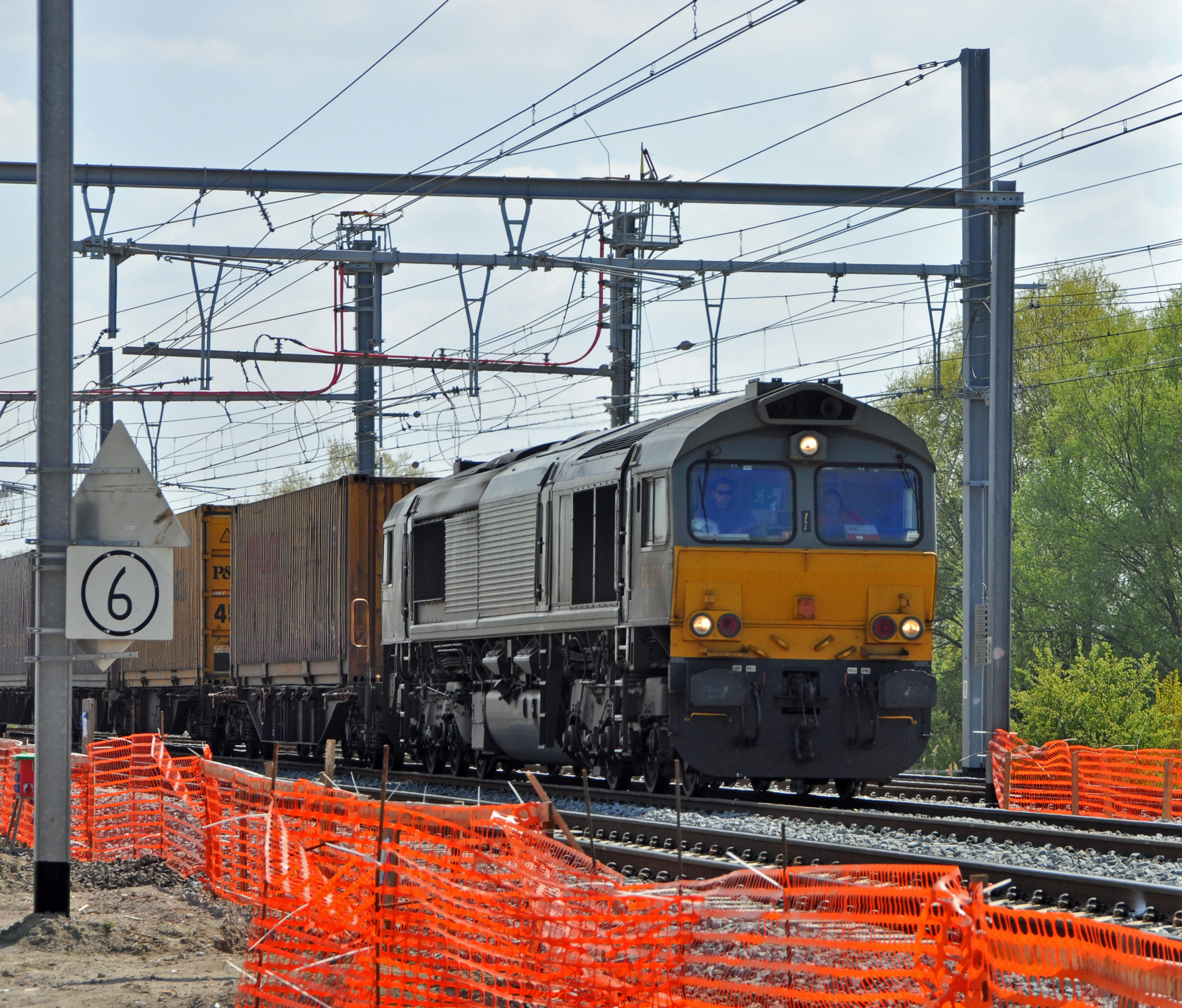 Crossrail's Class 66 loc DE6306 at the "Blauwe Toren" junction, north of Bruges (Belgium), heading for Zeebrugge